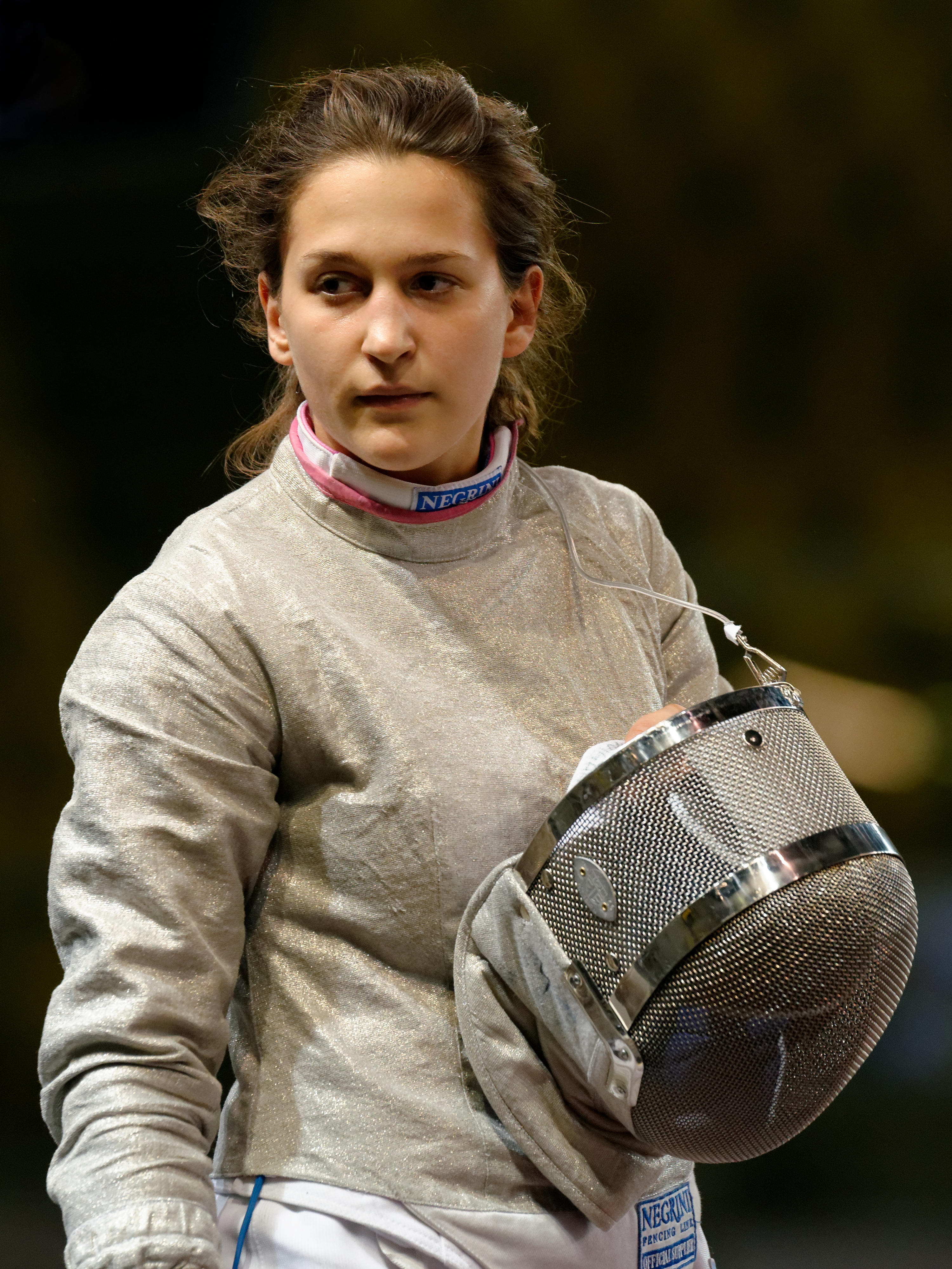 Lucrezia Sinigaglia of Italy during their match for the 5th place against Poland in the women's team sabre event at the European Fencing Championships at Rhénus Sport in Strasbourg on 13 June 2014.